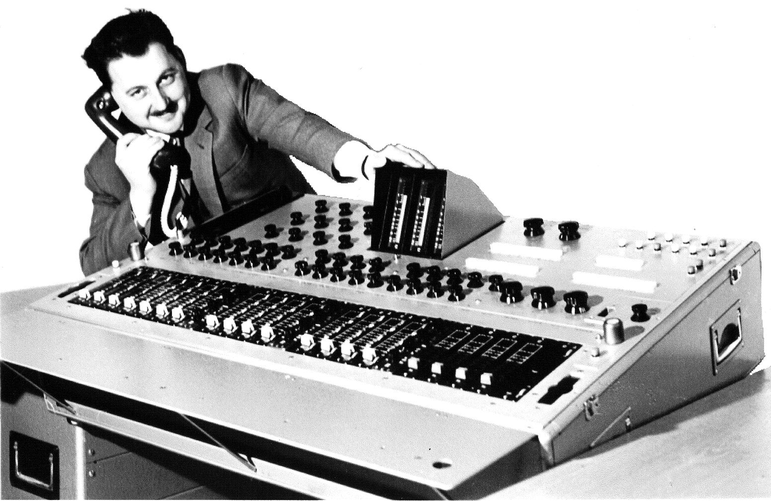 The picture shows a three main channel audio console with vacuum tubes of ca. 1966 with designer and manufacturer Hans Leonhard (Leonhard Electronics, Zürich, Switzerland) to the left.